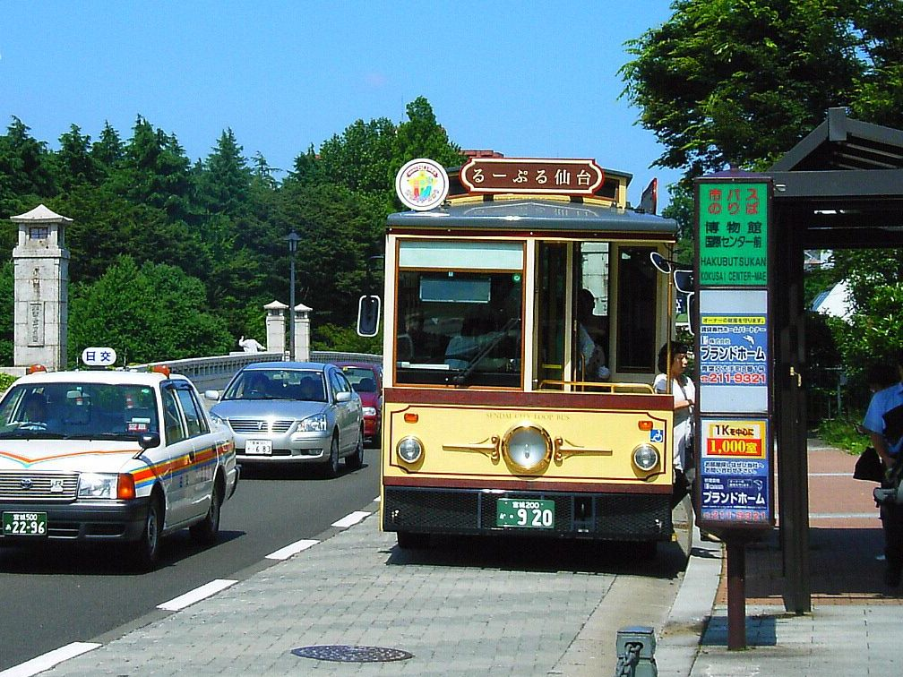 The Loople Sendai. A tourists' bus operated by Sendai city, Japan. This #920 bus was retired early in 2017.